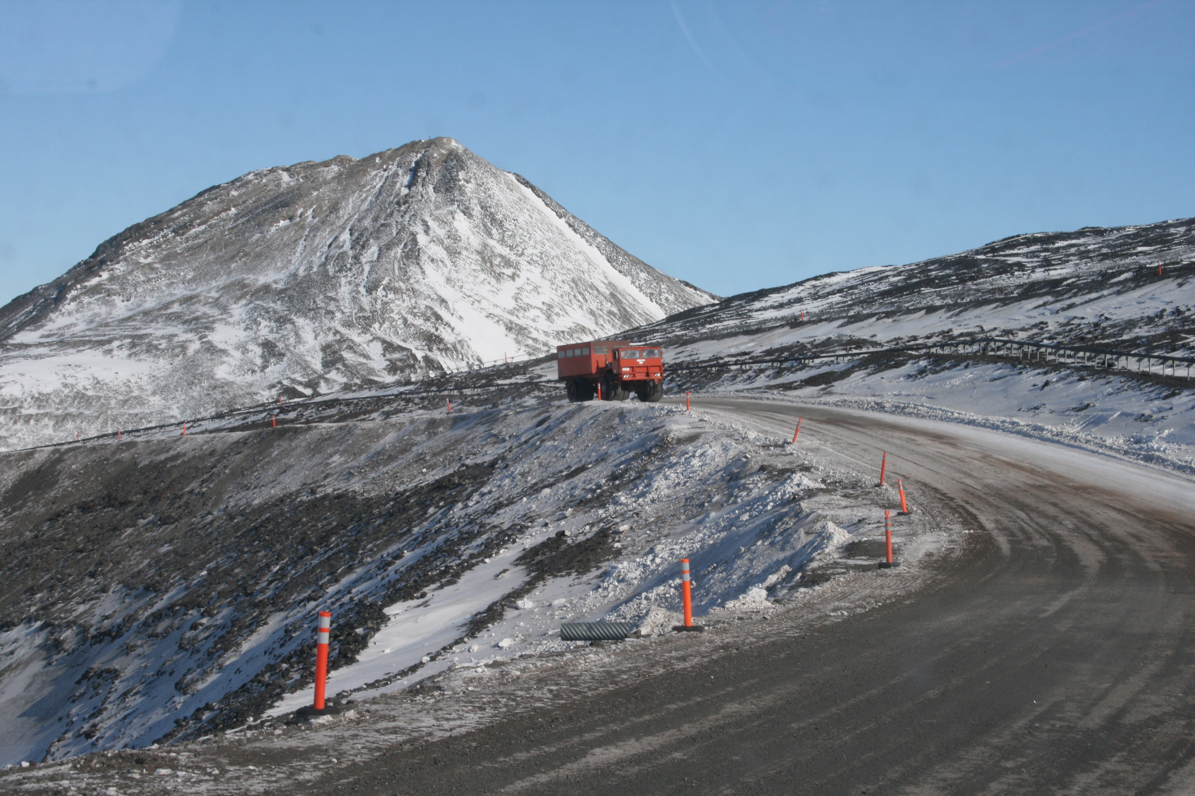 Foremost Delta II driving from McMurdo Station (US) to Scott Base (NZ)